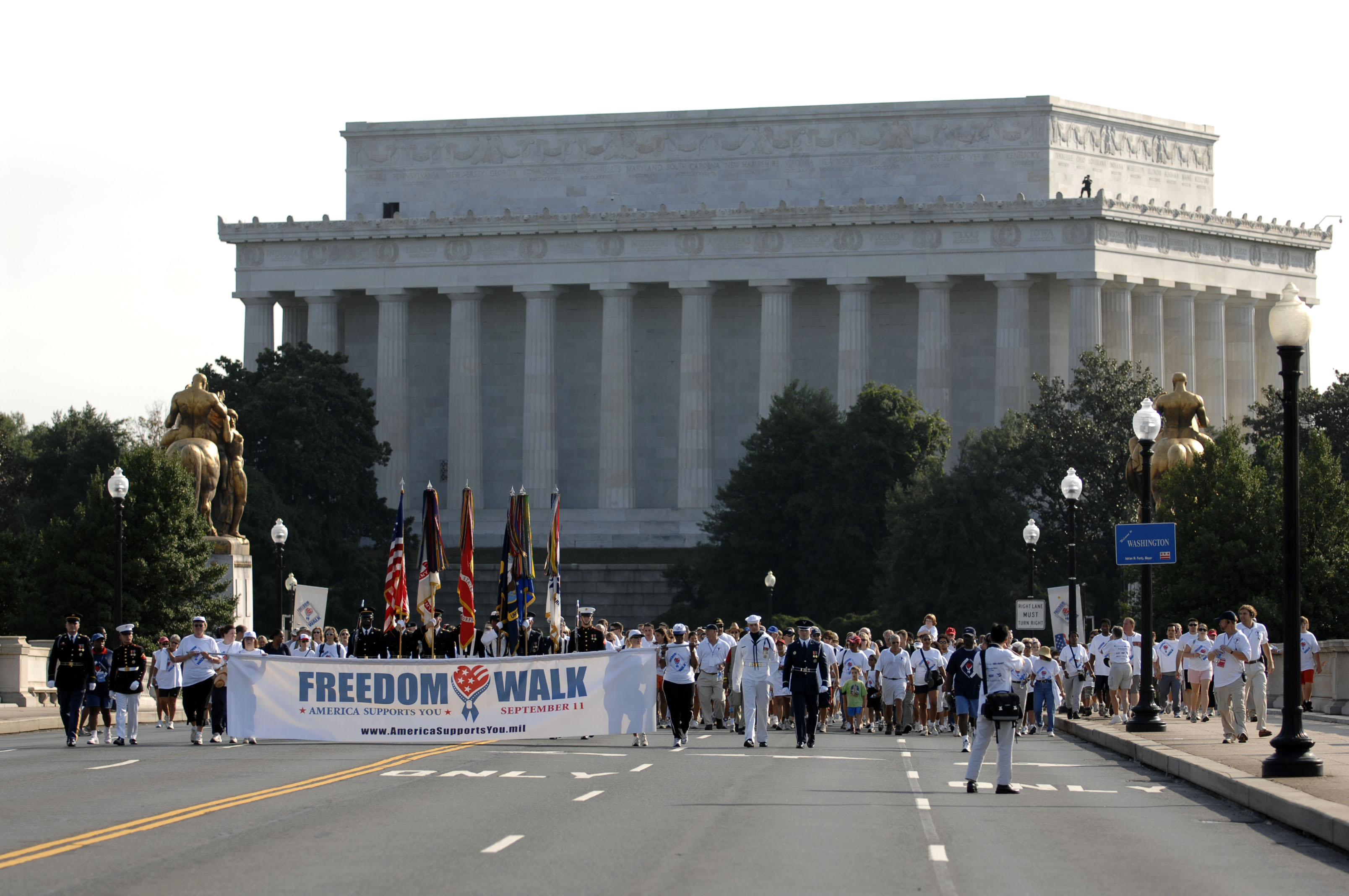 WASHINGTON (Sept. 9, 2007) - The America Supports You banner leads National Freedom Walk participants onto the Memorial Bridge toward Arlington, Va. The third annual walk commemorated the victims of the Sept. 11th terrorist attack and honored military veterans, past and present. U.S. Navy photo by Chief Mass Communication Specialist Shawn P. Eklund (RELEASED)